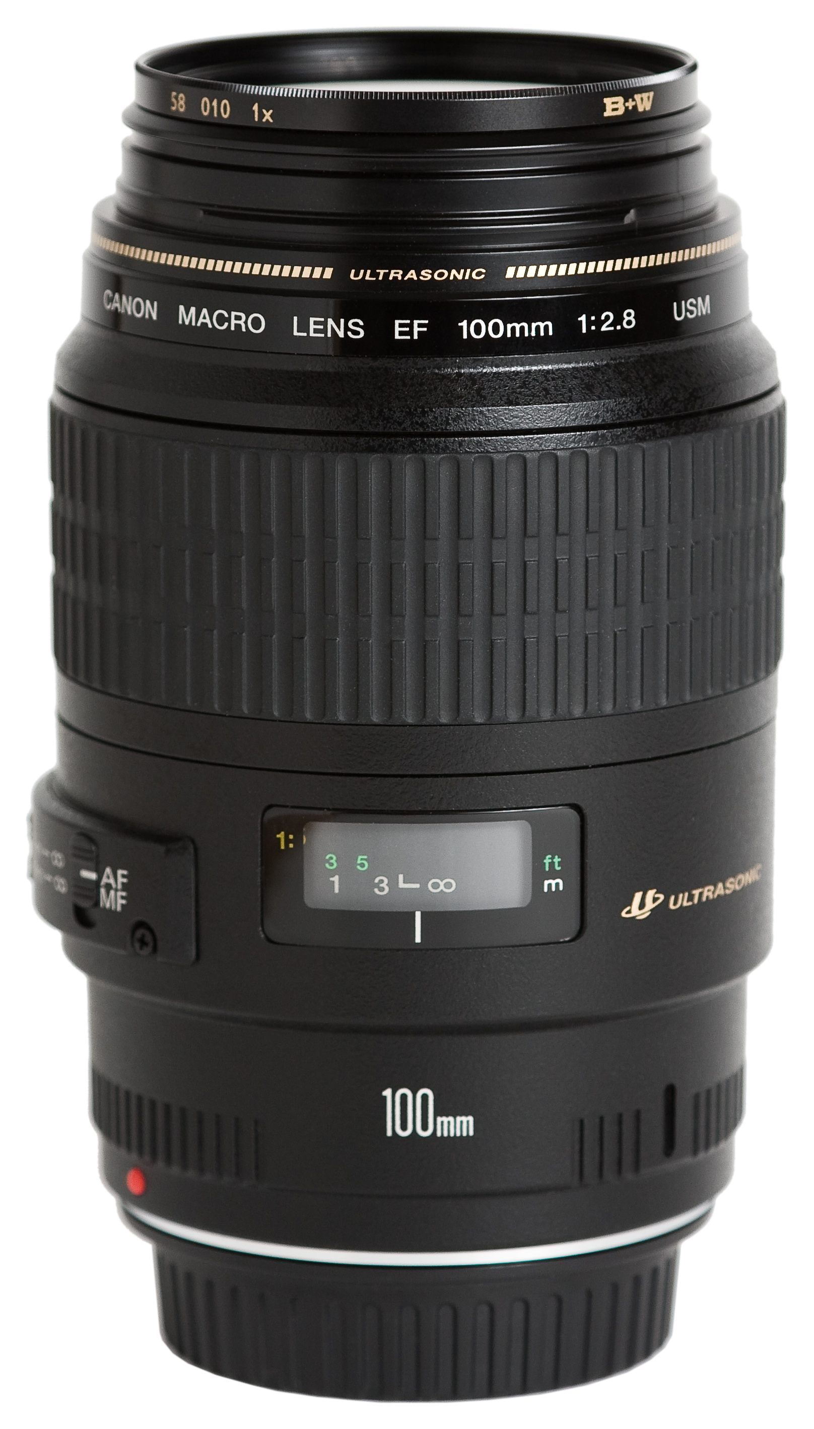 Canon EF 100mm f/2.8 Macro USM lens with 58mm B+W UV (non-MRC) filter.